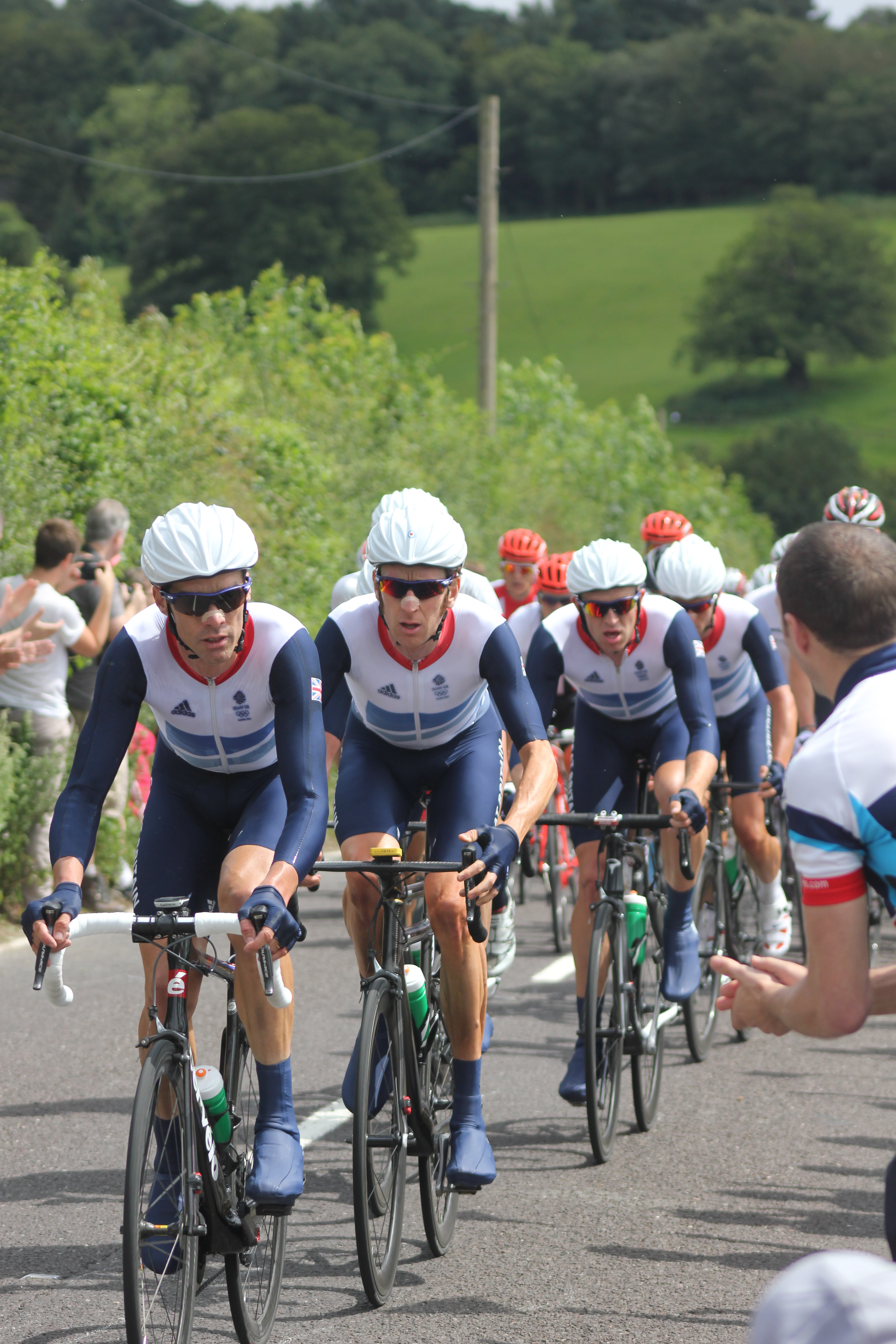 Team GB on Box Hill circuit (by Nower Wood, near Headley), Surrey, during 2012 Olympics Mens Road Race